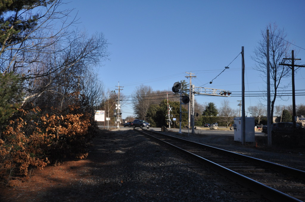 Lowell and Andover Railroad tracks, East Street crossing, Tewksbury, Massachusetts.